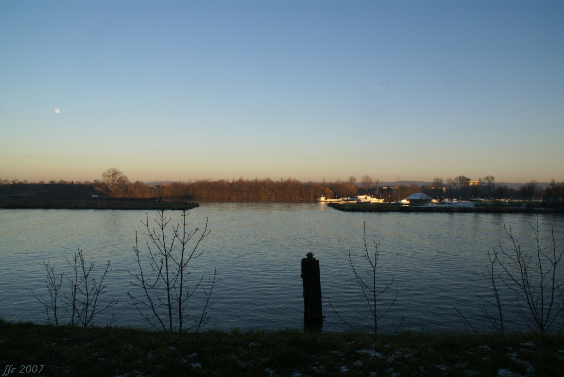 Lanaye canal (in front) connecting the Albert Canal with the Meuse near Oost [1]